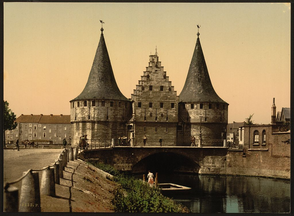 The_Rabot_Gate,_Ghent,_Belgium.jpg